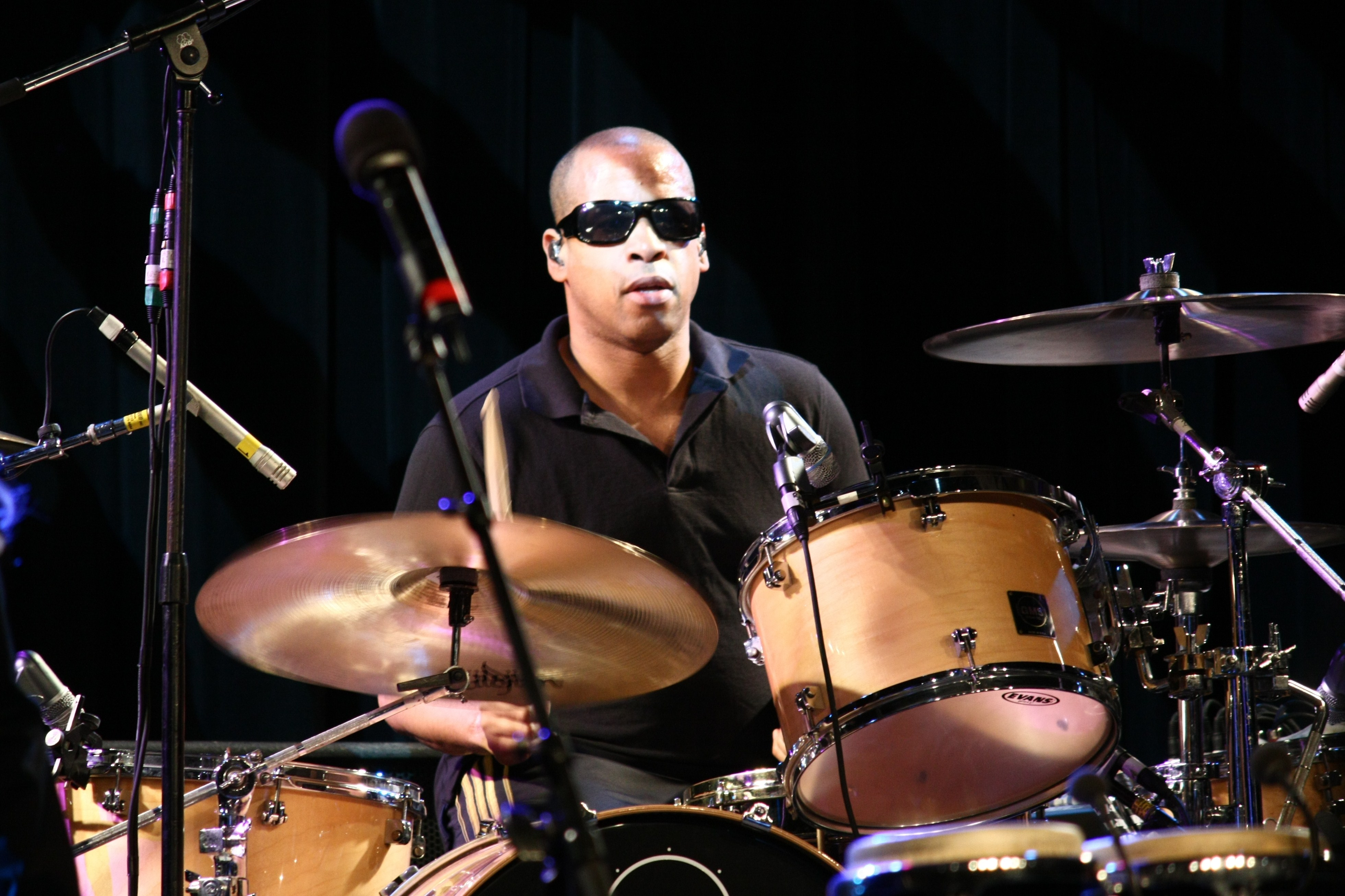 Sterling Campbell, an American rock drummer who has worked with Duran Duran.